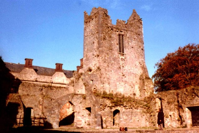 Ormonde Castle / Caisleán Urmhumhan A rear view of the "Castle of East Munster", showing the older parts dating from 1309, with the later manor house of the Butlers in the background.